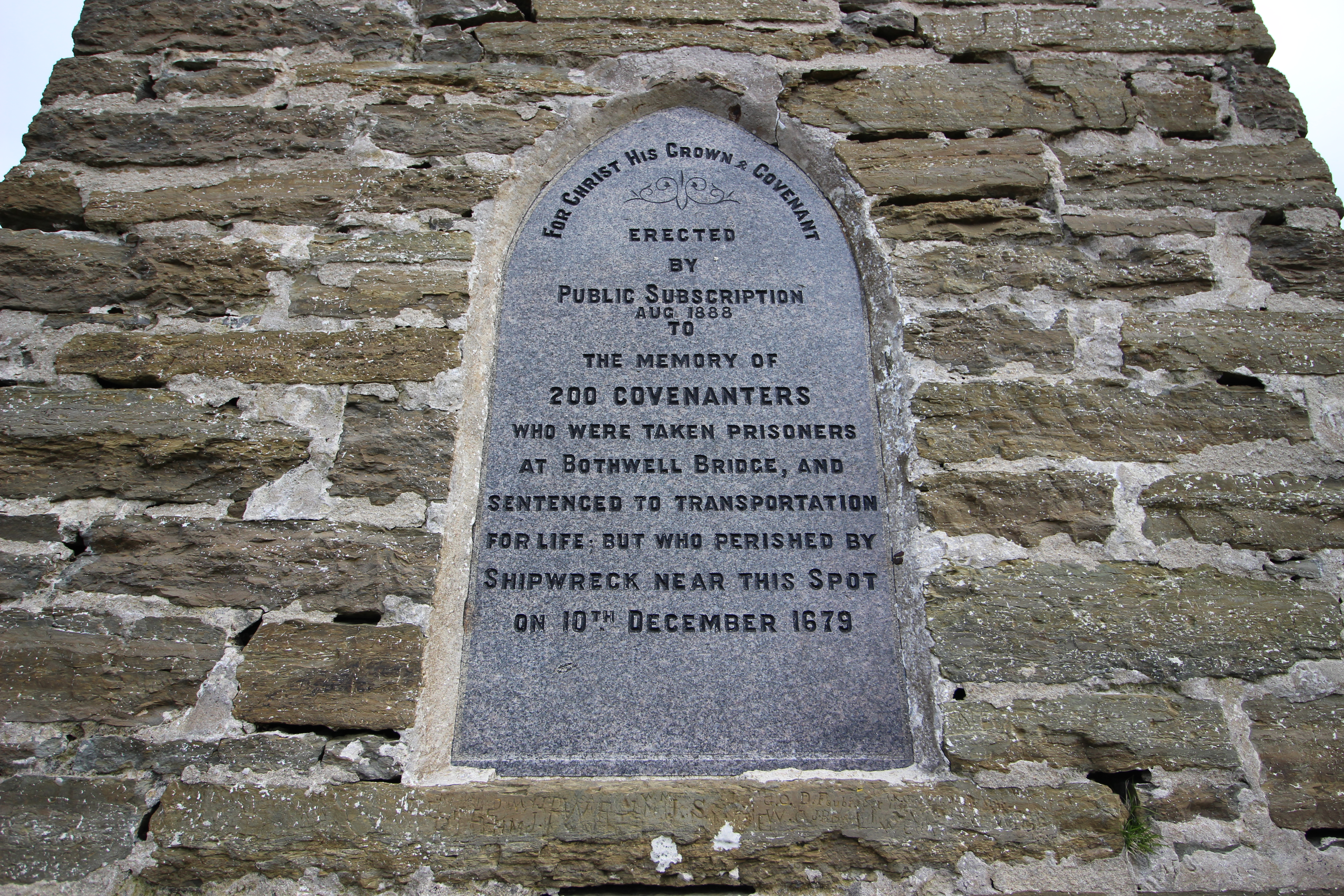 Deerness, Covenanters Monument Wikidata has entry Q17828582 with data related to this item.